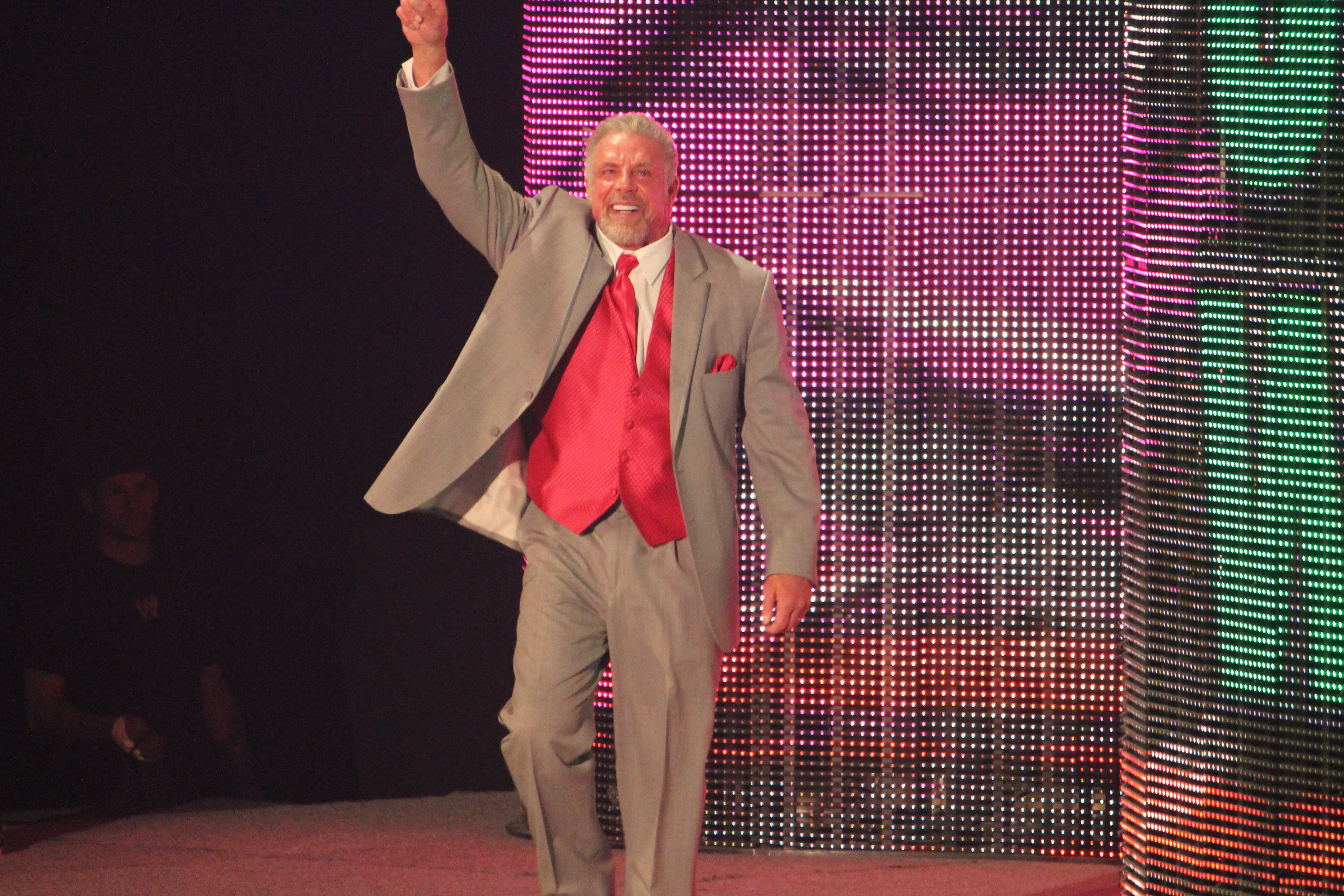 The Ultimate Warrior making an appearance, April 7th 2014